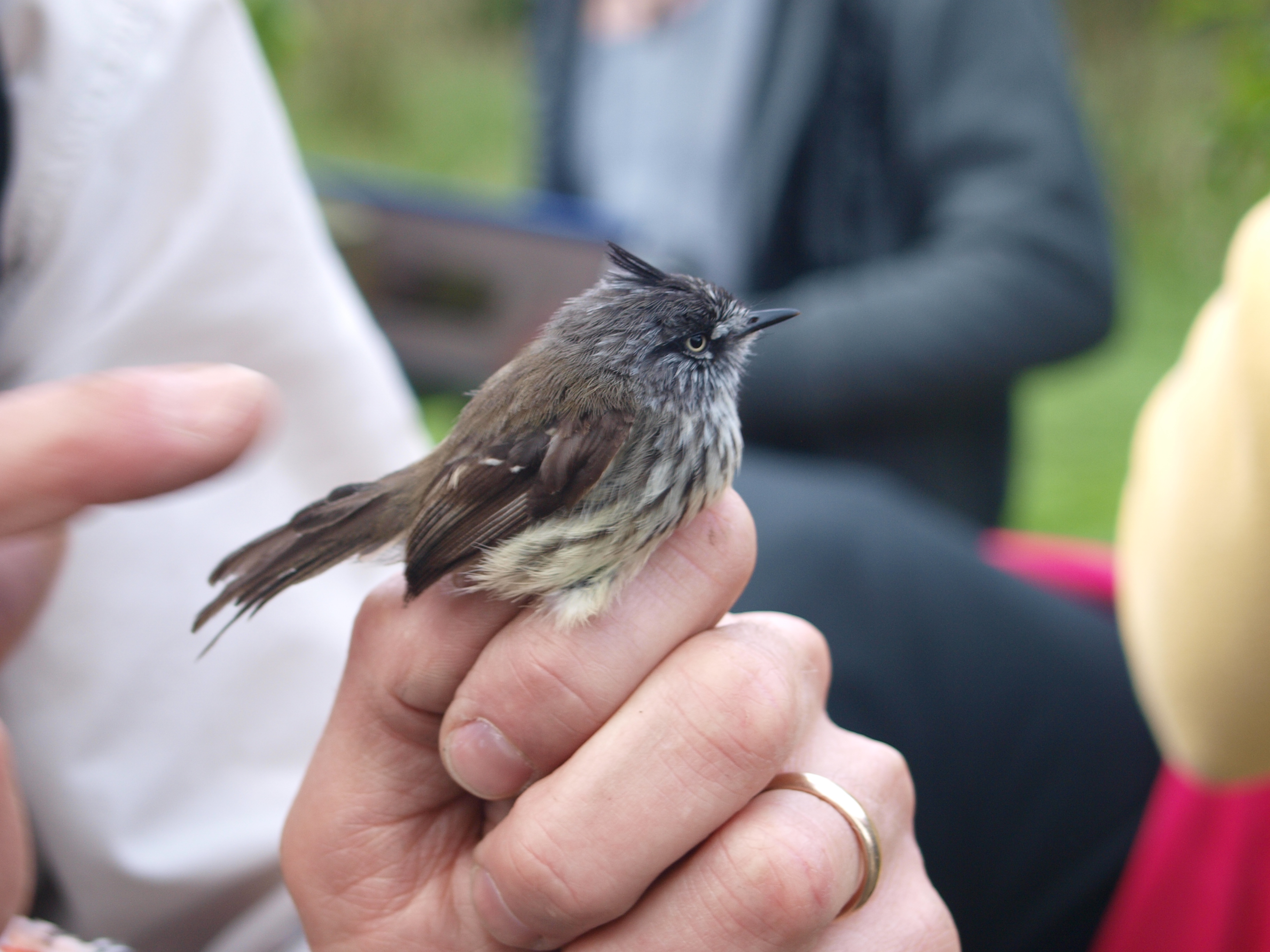 Bird in photographer's grip